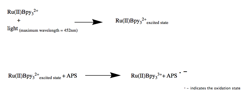 RuBpy reacting with APS in presence of light